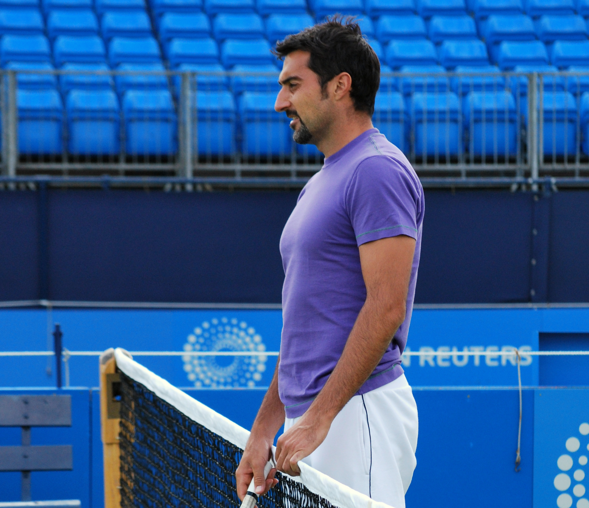 Playing with his son on finals day of the Aegon Championships 2012.